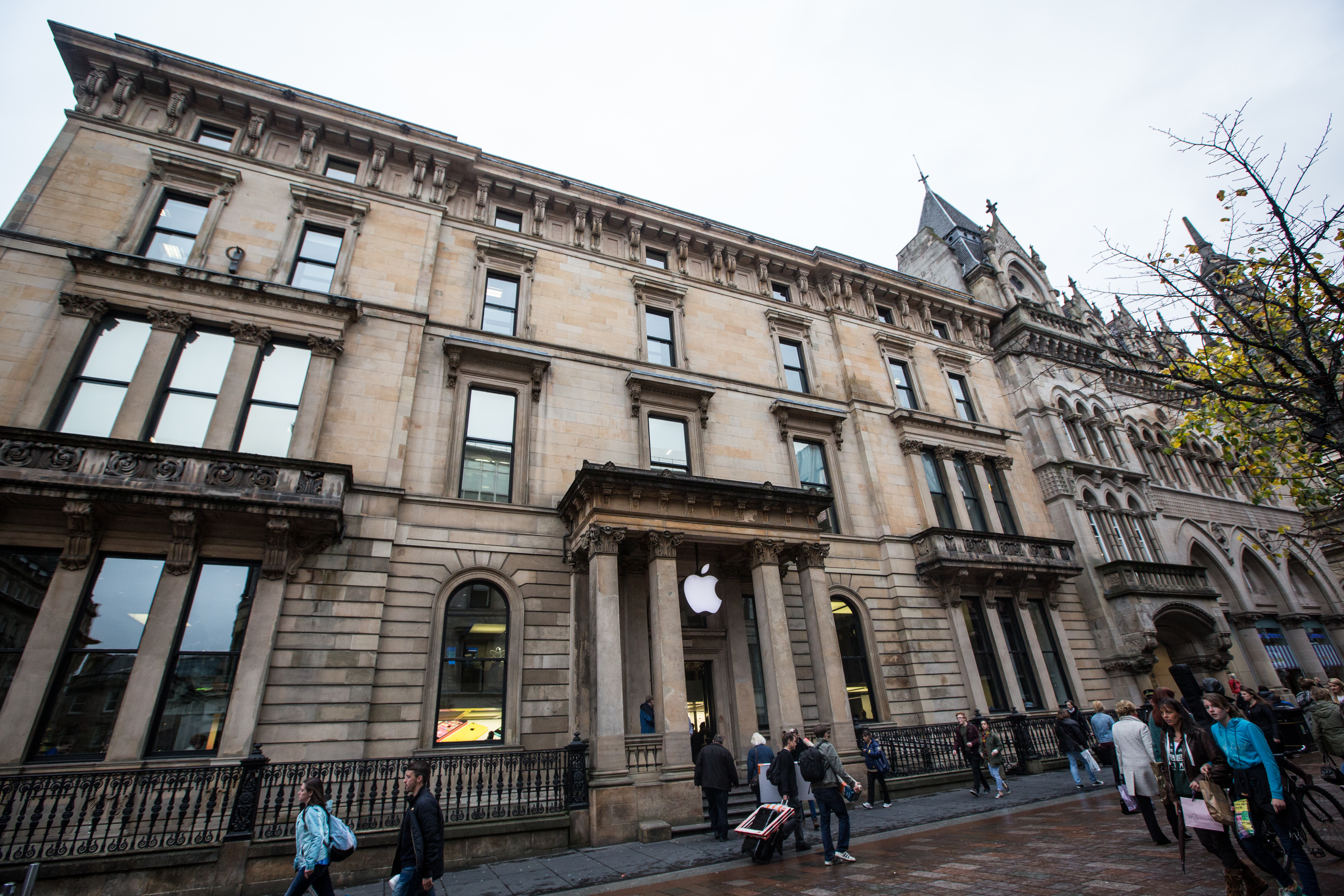 Apple Store, Glasgow, Scotland, UK